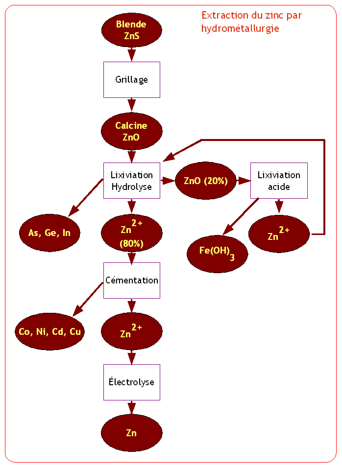 Synoptique of zinc production by pyrometallurgy route